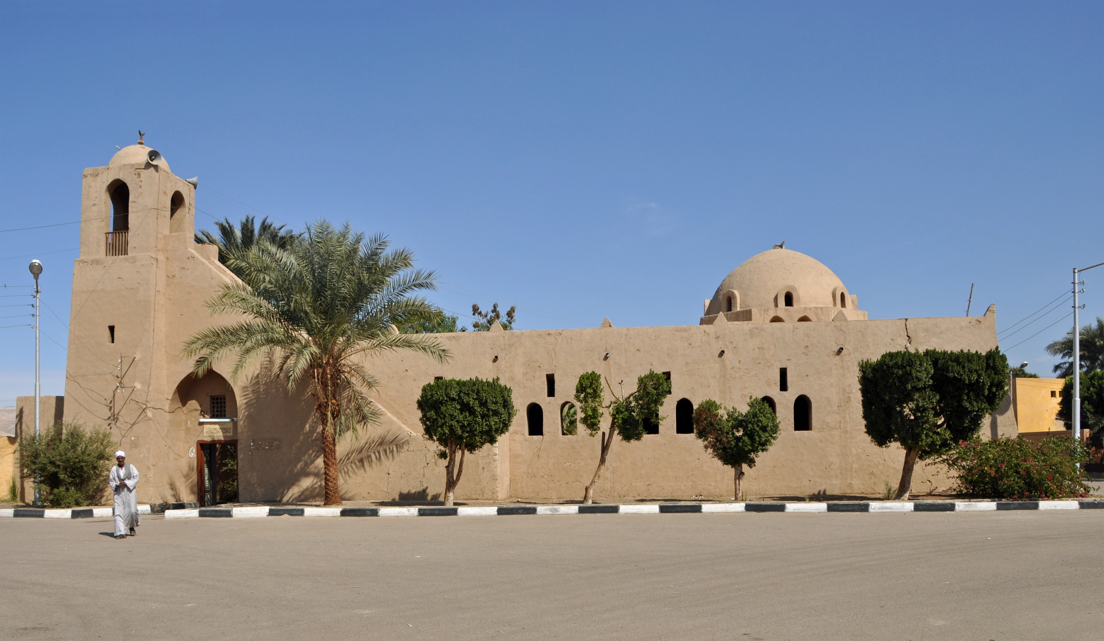 Gurna (Luxor, Egypt): the mosque (architect: Hassan Fathy)